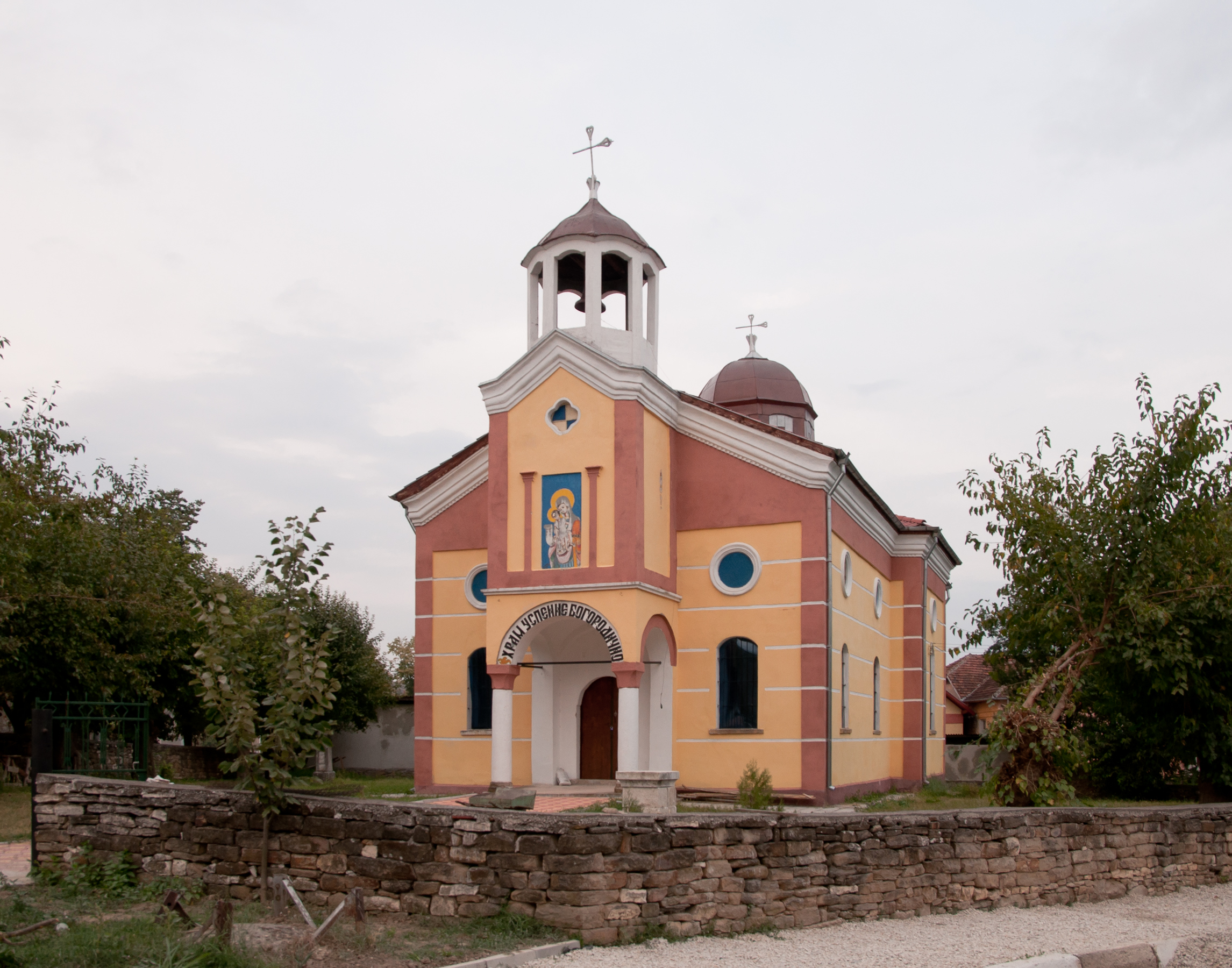 Dormition of the Theotokos Church in the village of Petrevene, Lukovit Municipality.